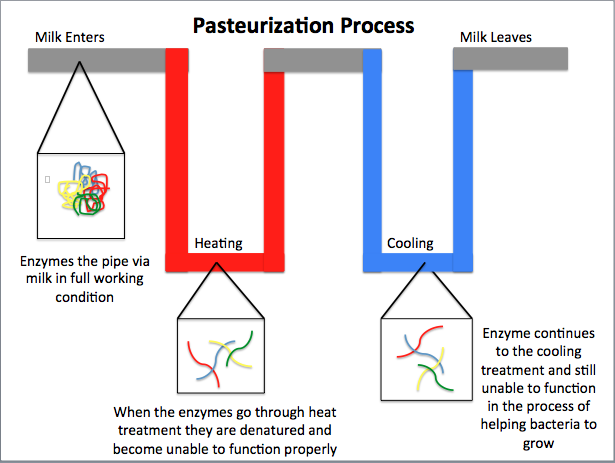 The general overview of the Pasteurization process is shown in the figure above. The milk starts at the left and enters the piping with functioning enzymes that then when heat treated become denatured and stop the enzymes from functioning. This helps to stop pathogen growth by stopping the functionality of the cell. The cooling process helps stop the milk from having Maillard Reaction and Caramelization. The Pasteurization process also has the ability to heat the cells to the point that they burst from pressure build up.